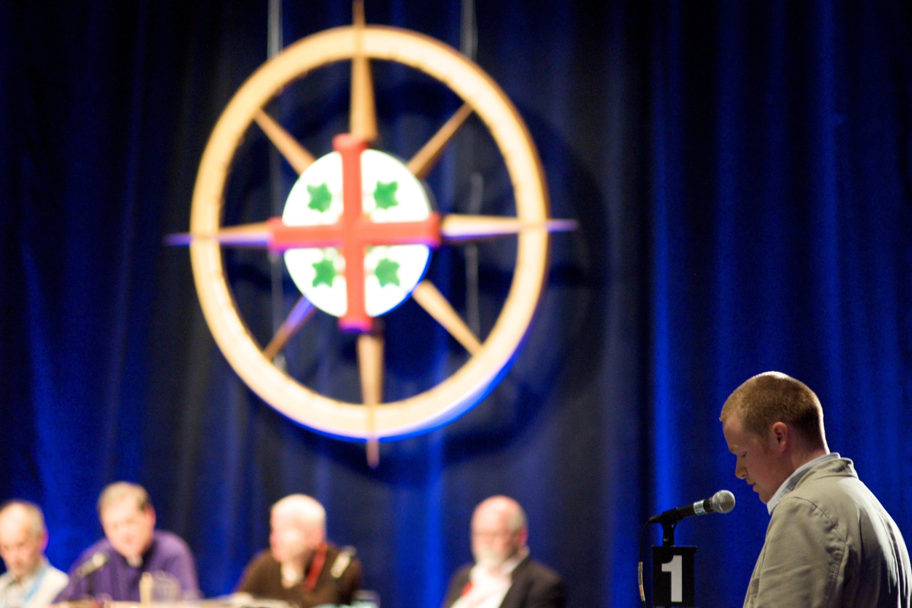 A favourite photo of mine that I took at General Synod 2010, held in Halifax NS from June 3-11, 2010.